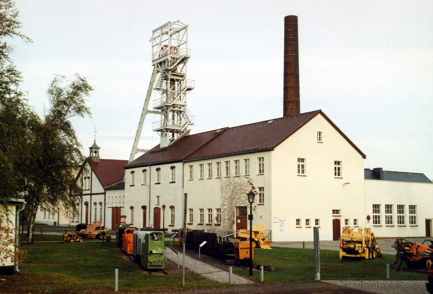 This image shows the visitor`s mine "Reiche Zeche" in Freiberg in the Ore Mountains in Saxony, Germany.